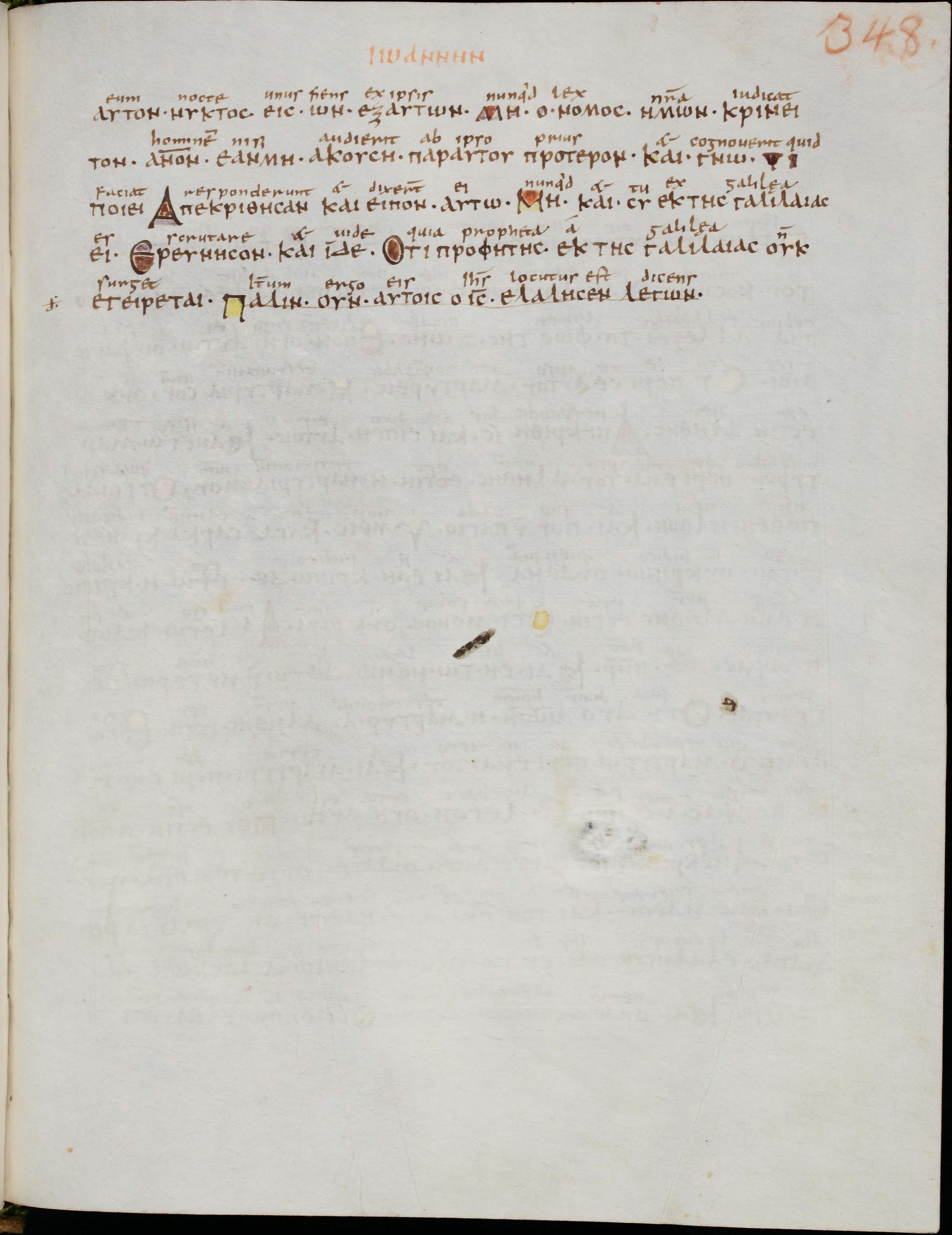 Folio 174 v; the end of John 7; the text lacks the Pericope Adulterae